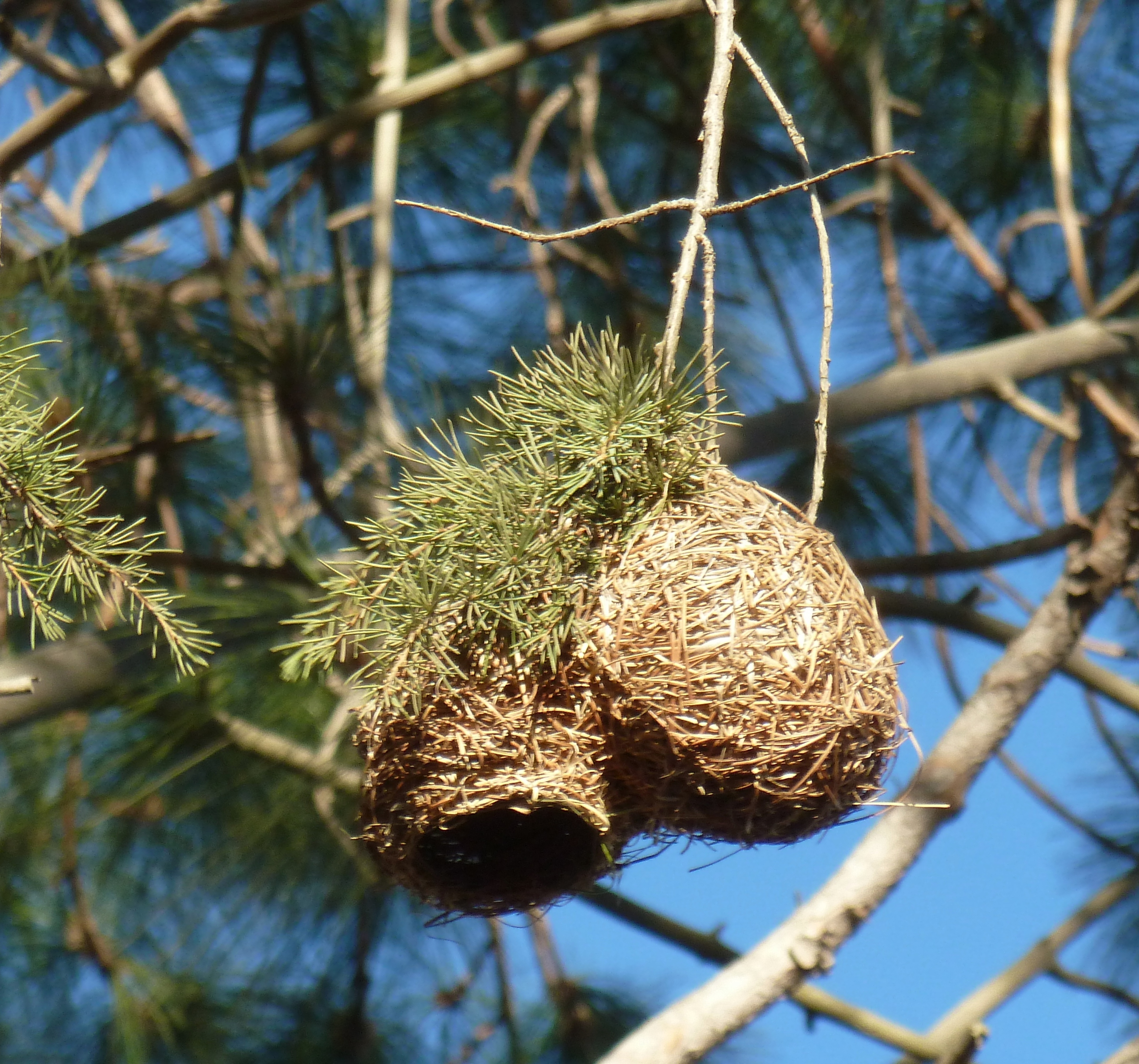 Nest of a Cape weaver at Bergview, Harrismith, Free State. It was built in a Deodar cedar of which the twigs were cleaned of needles, and the longer needles of a nearby Loblolly pine was used for its construction.